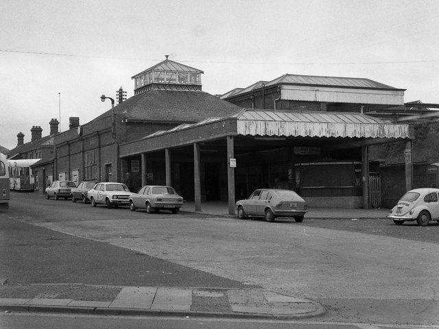 Ballymena railway station. Built 1903-04 to a design by Berkeley Deane Wise, Ballymena was the last station constructed by the Belfast & Northern Counties Railway before it was bought by the Midland Railway (of England). Pulled down in 1979, it was... more